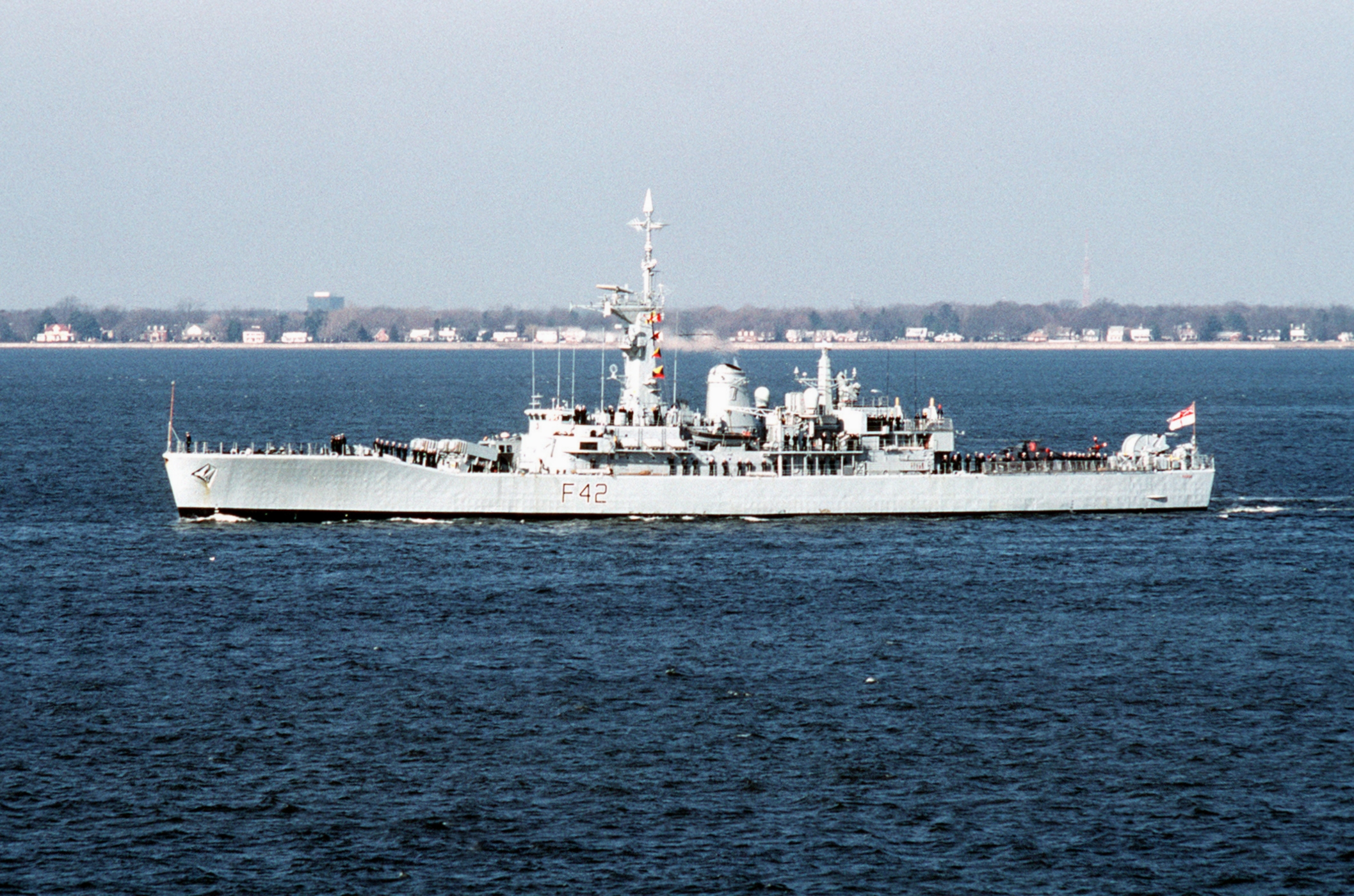 The British frigate HMS Phoebe (F42) entering Hampton Roads (USA). The Phoebe was accompanying the light aircraft carrier HMS Invincible (R05) on a five-day visit.